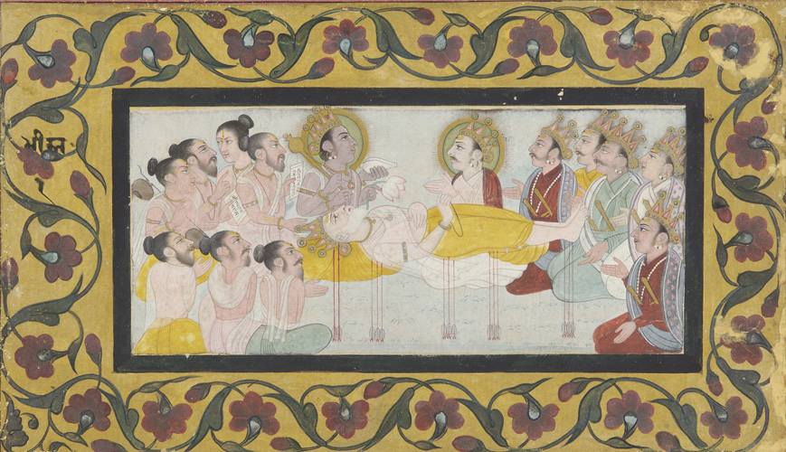 Bhishma, a character from the Mahabharata, on his deathbed of arrows.